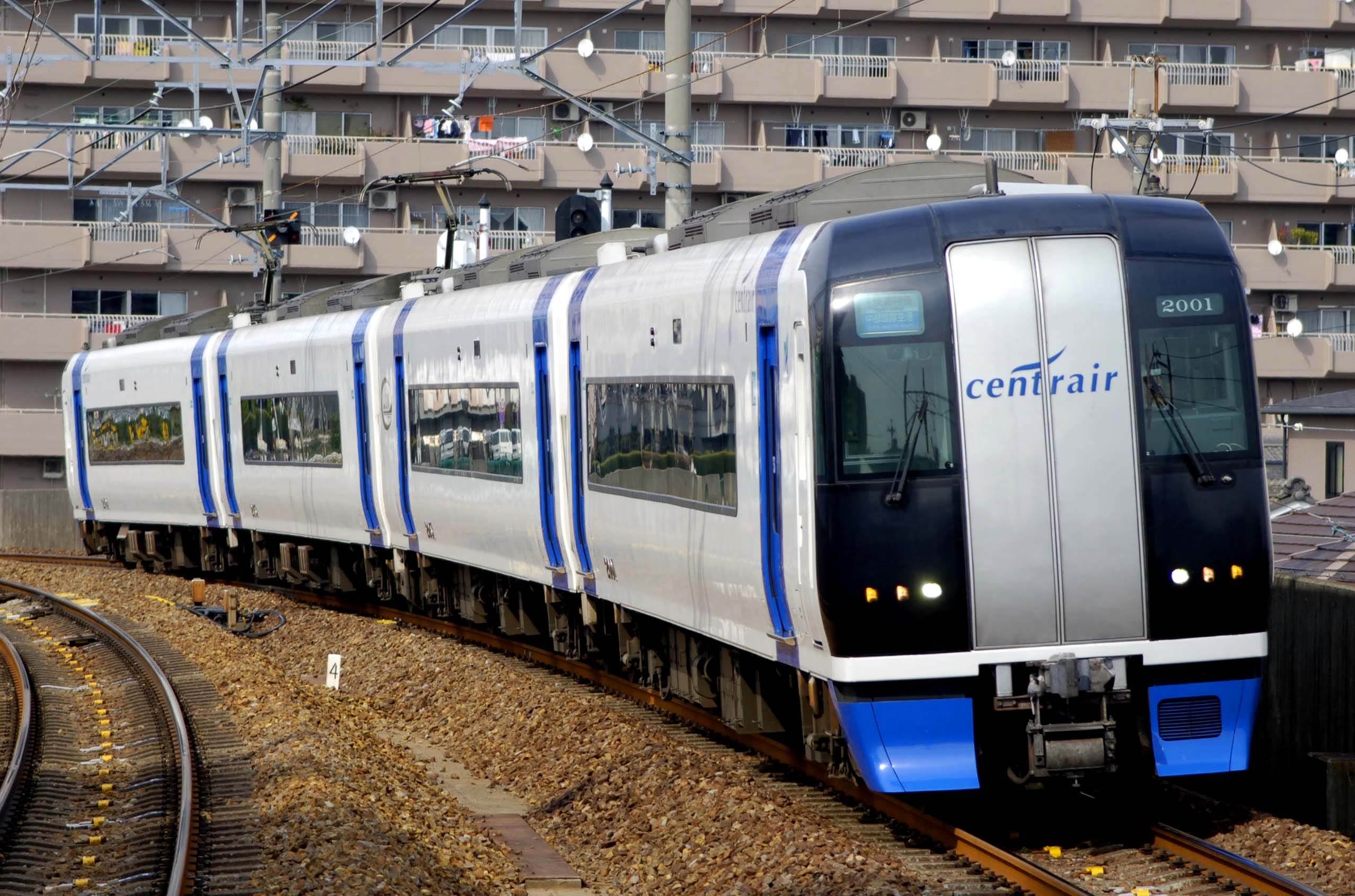 Nagoya Railway type 2000 electric car. 名鉄2000系｢ミュースカイ｣。豊田本町にて。